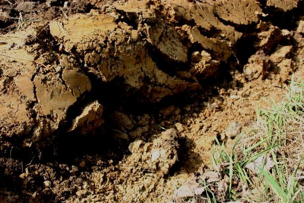 Furrow with upturned moraine clay. Beder, Jutland